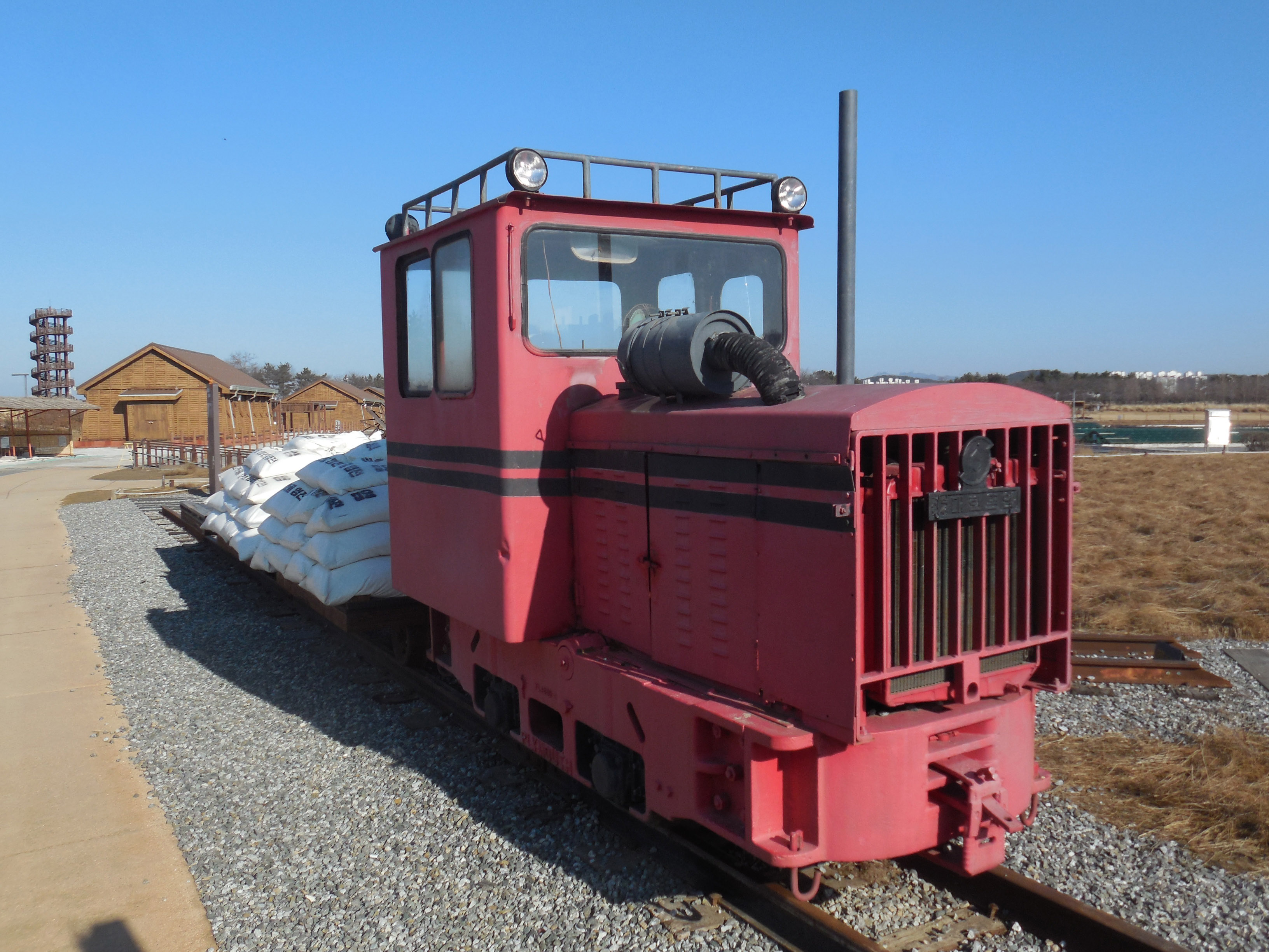 former gasoline locomotive used in Sorae Salt Field.